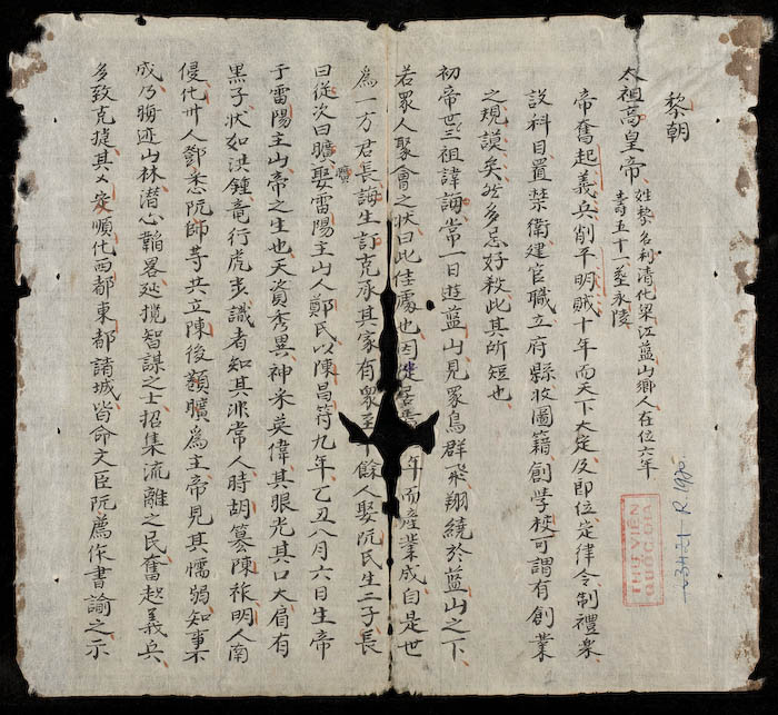 First page of history book "History of the Lê Dynasty" Li Chao Shiji by some anonymous authors, probably was written in 1532-1534 by scholars under new Mạc dynasty. Page 188 lost a half. The book covers the period from 1427 to 1527, when Vietnam was unified under a single monarchy, started recording when Lam Sơn leader Lê Lợi became emperor Taizu of Dai Viet, he reigned for 6 years,...